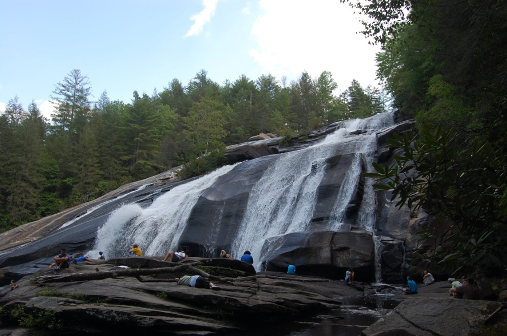 High Falls at DuPont State Forest, North Carolina, USA looking roughly east.